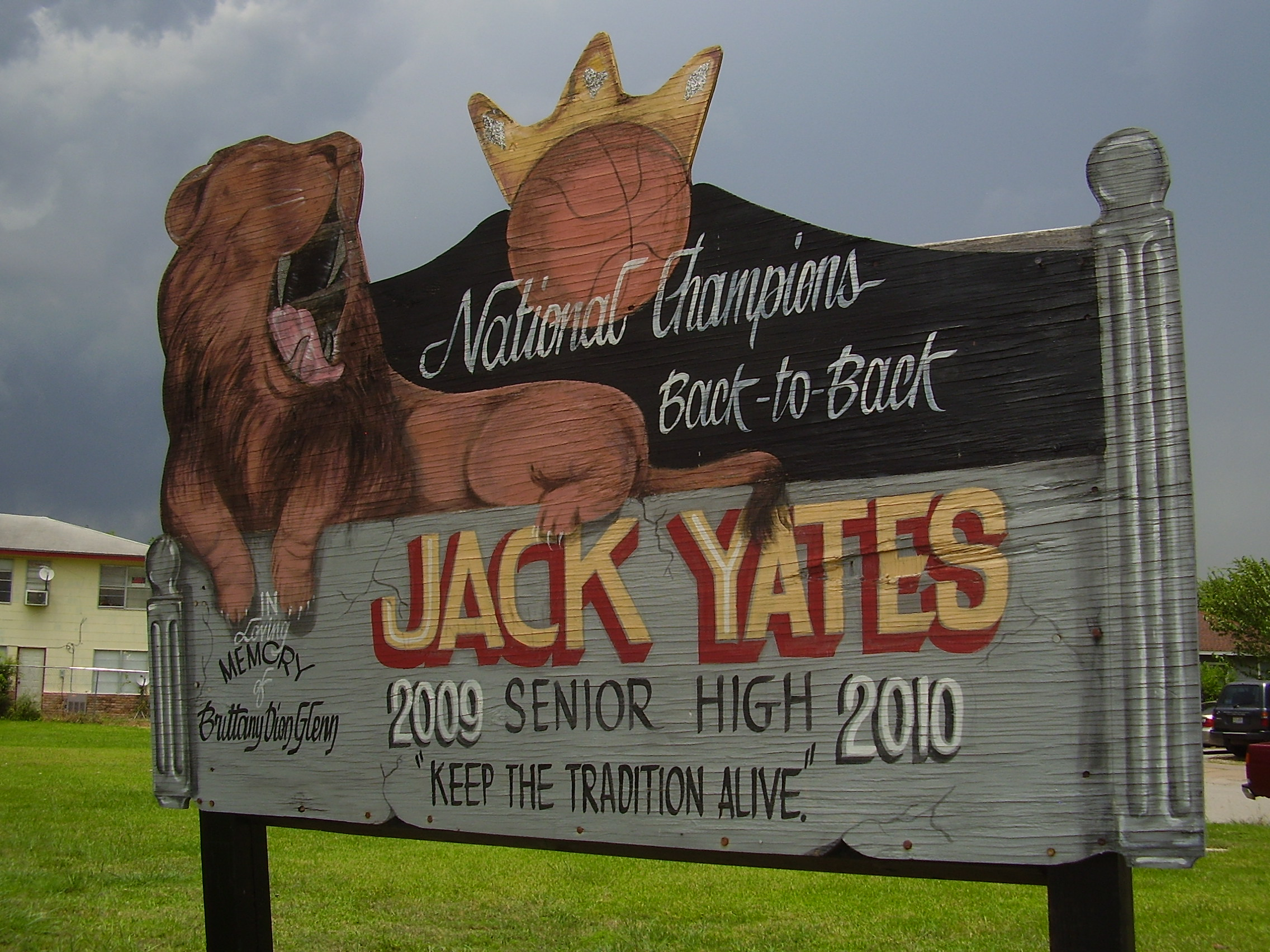 Legacy sign of Yates High School